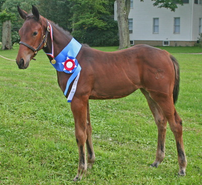 Our horse Rock's Anne an American Warmblood (of Holsteiner and Quarterhorse extraction) filly, taken at about 3 months age at the 2007 Local Inspection (Streetsboro, Ohio) where she won "supreme" for her age/gender class. This image shows the award she received for being designated "supreme". It also shows the American Warmblood brand on her hindquarters. She is registered with the American Warmblood Society and she received the bronze medal in the 2007 USA National Inspection Awards.